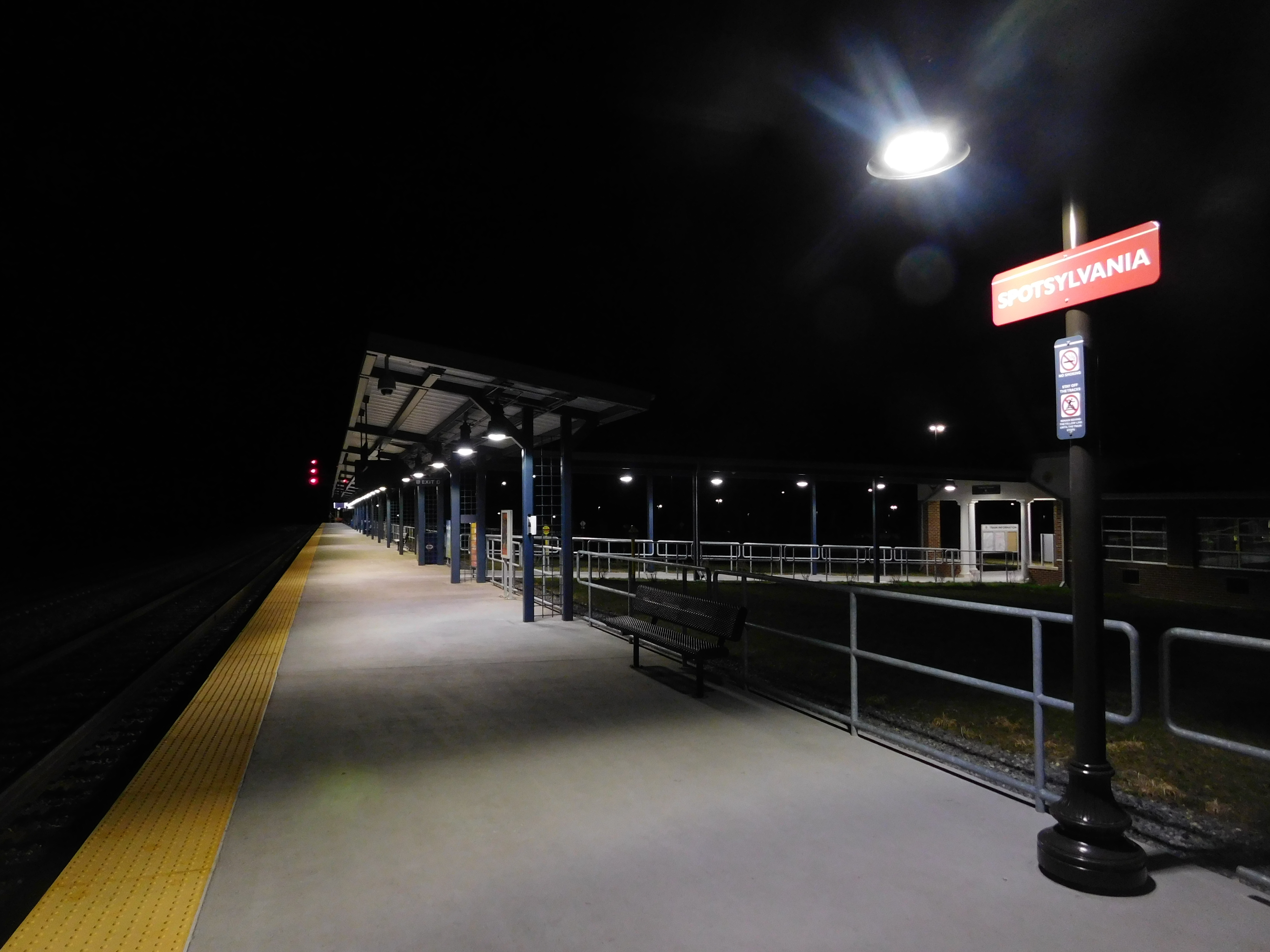 Spotsylvania station of Virginia Railway Express.